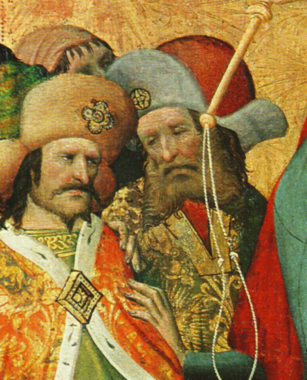 Detail of sixth painting in Barbara altar by Master Francke, Barbara's father and Marcilianus.